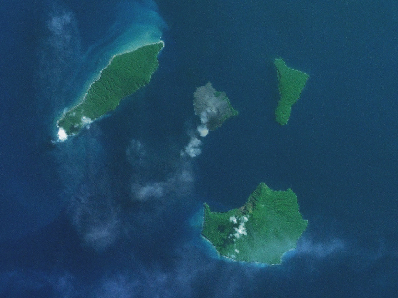 Krakatoa archipelago, viewed from space. The photograph was taken between 1999 and 2003, probably in 2001, because there was an eruption in from july to september.